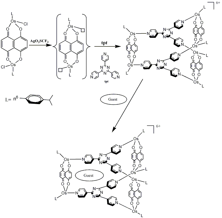 Shown here is a general scheme for creating an osmium-based metallaprism.